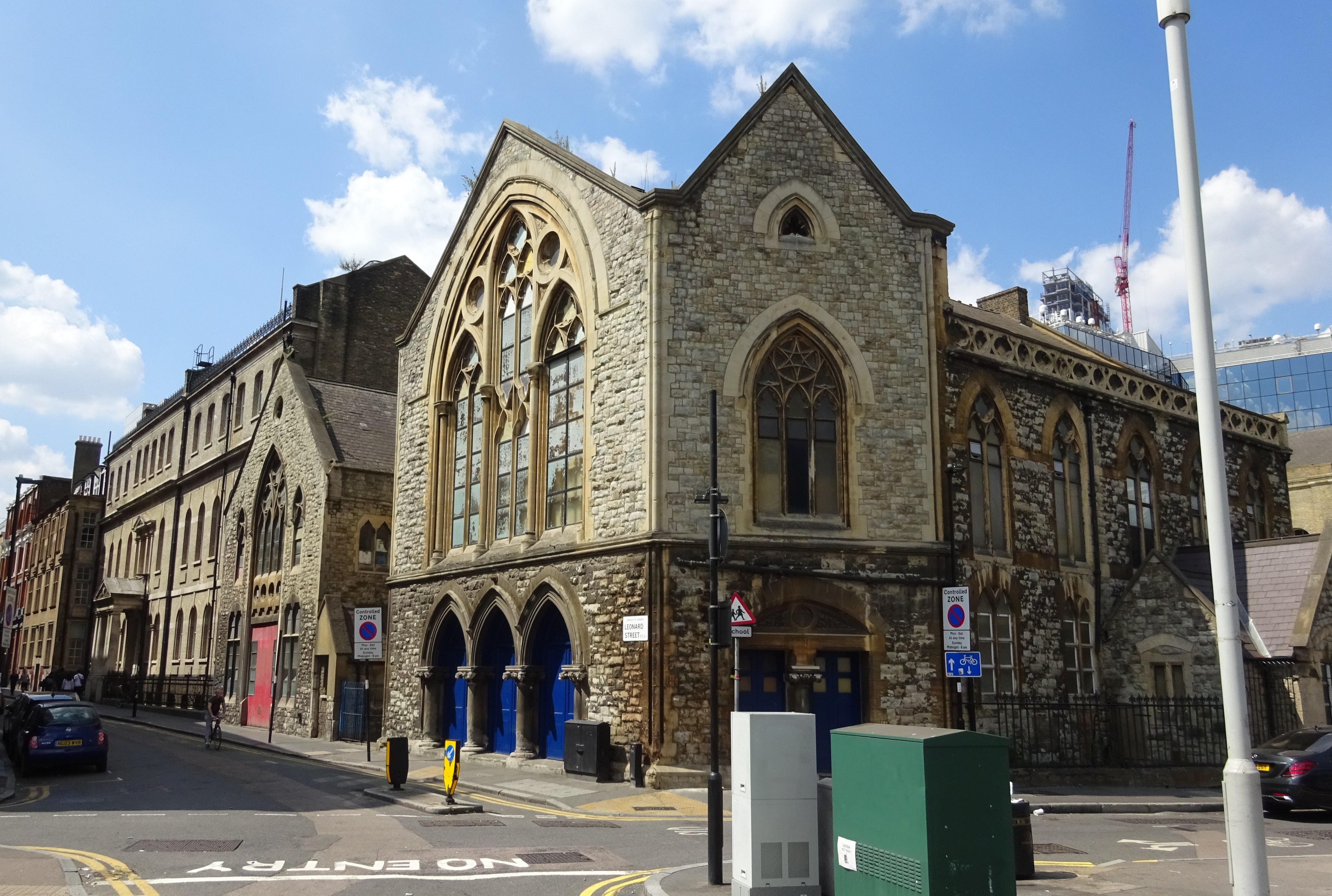 Former Whitefield's Tabernacle, Moorfields: on the corner of Tabernacle Street and Leonard Street, London, England. The former Sunday School can be seen next to the church in Leonard Street (to the left of the photo, with red door).